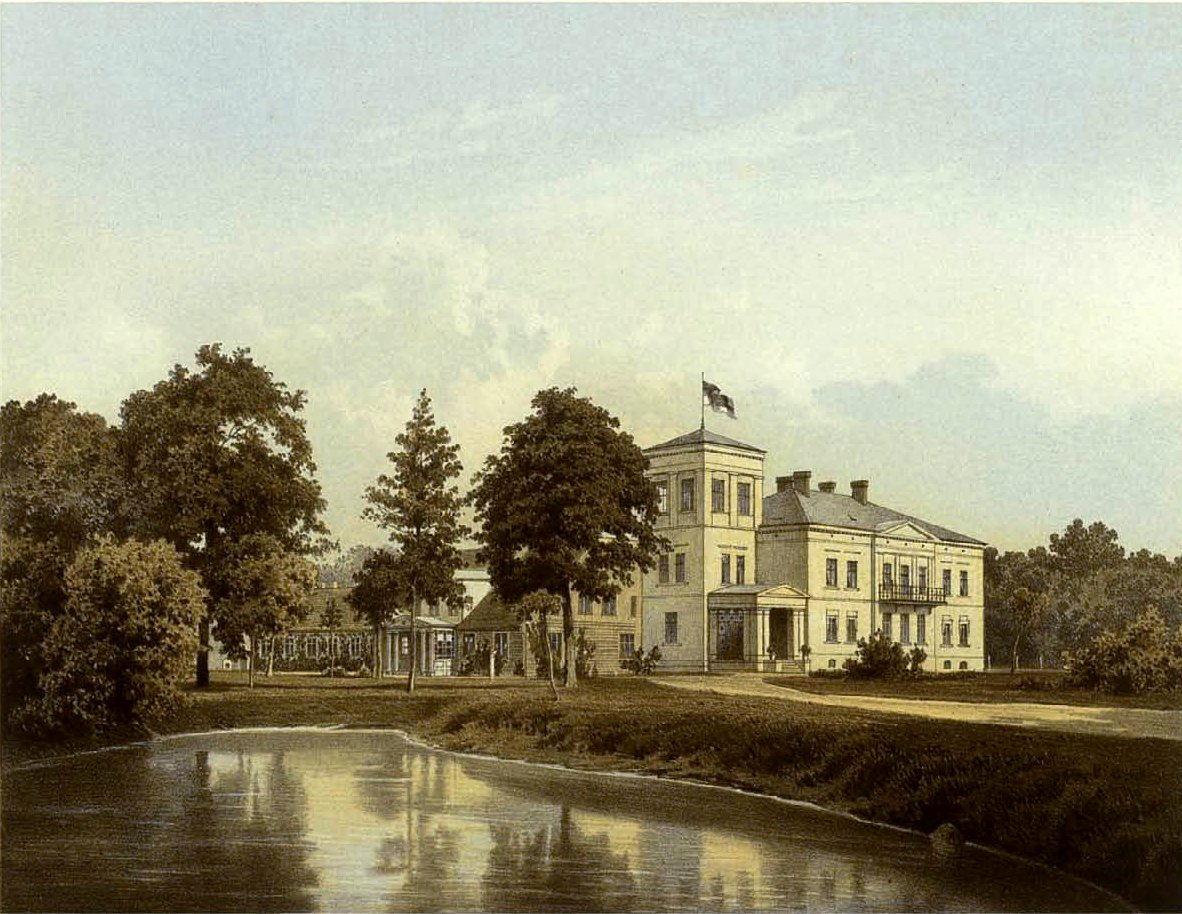 Non existent manor house in Szczurkowo.